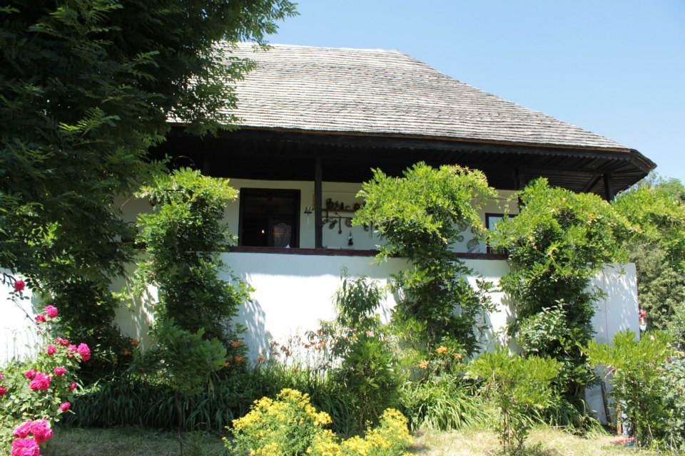 Casa Goangă